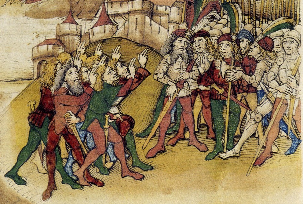 scene of the people of Hasle (Oberhasli) swearing fealty to Berne in 1334 (from the Spiezer Chronik, 1480s).